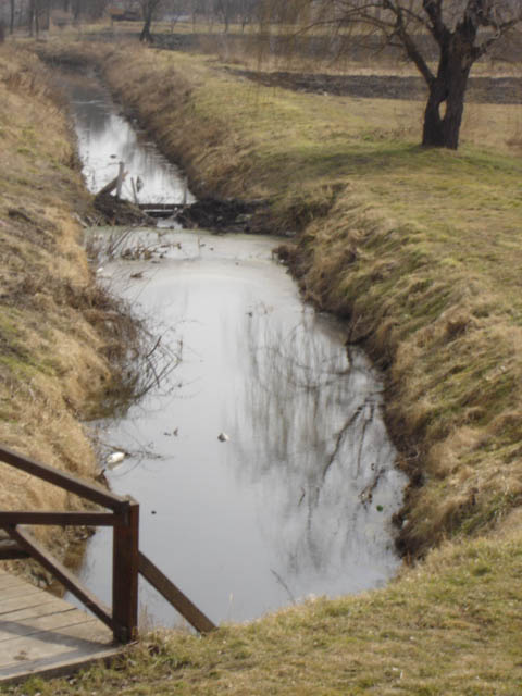 River Krivaja in Pačir/Pacsér, Serbia